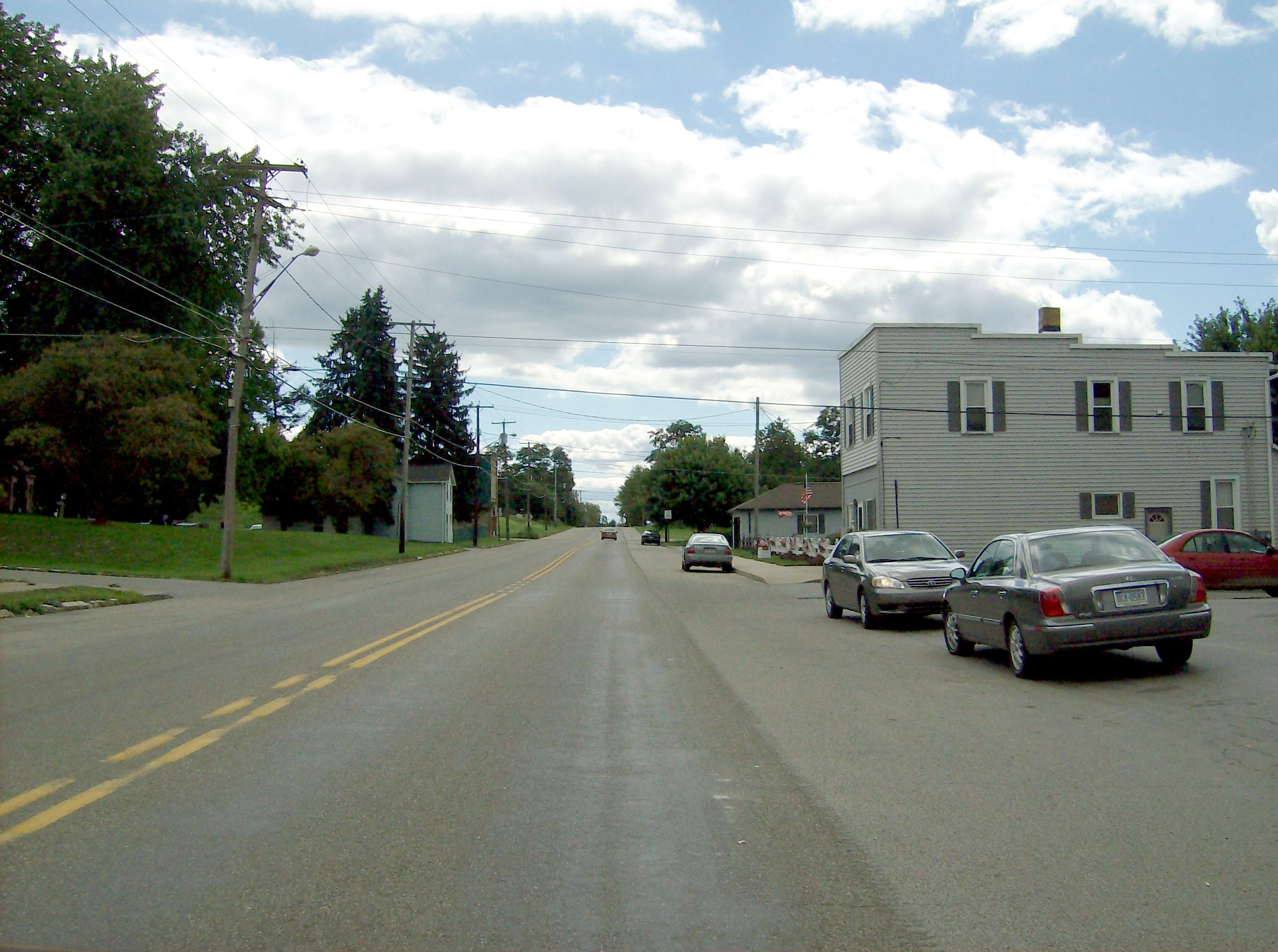 Heading southbound along Pennsylvania Route 168 in central West Pittsburg in southern Lawrence County, Pennsylvania, United States.